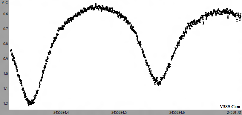 Light curve of variable star V389 Camelopardalis made by SBIG ST-7 CCD camera, Newton 150/750, HEQ-5 and C-Munipack program.